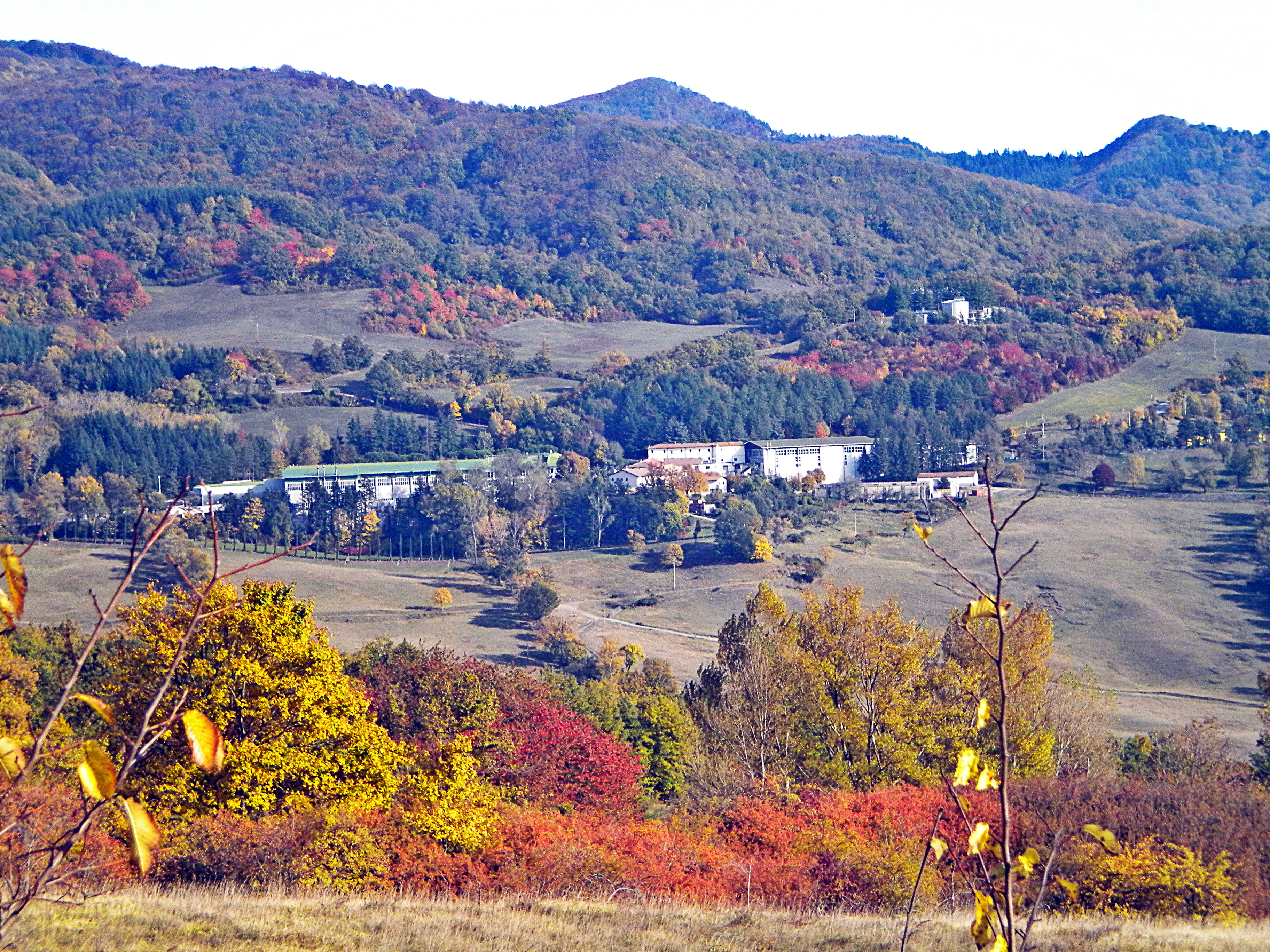 Panna plants:water bottles